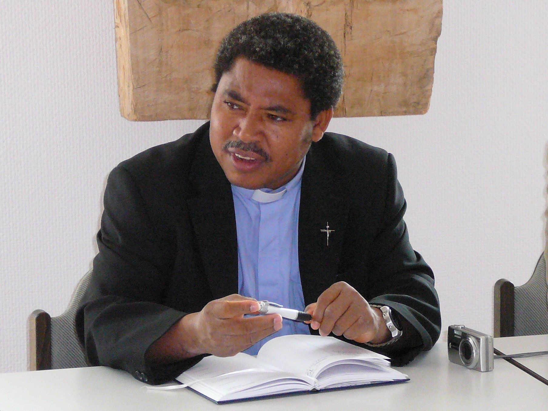 MostRev. on visit in Kuchl, Austria, since 2012 Bishop of Damongo